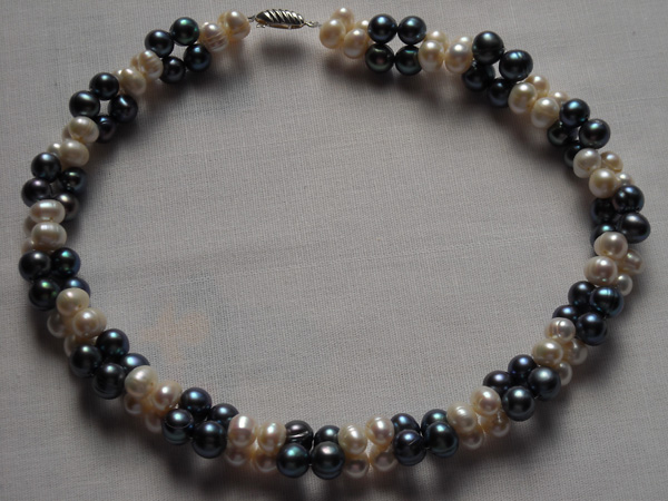 Necklace from white and black pearls